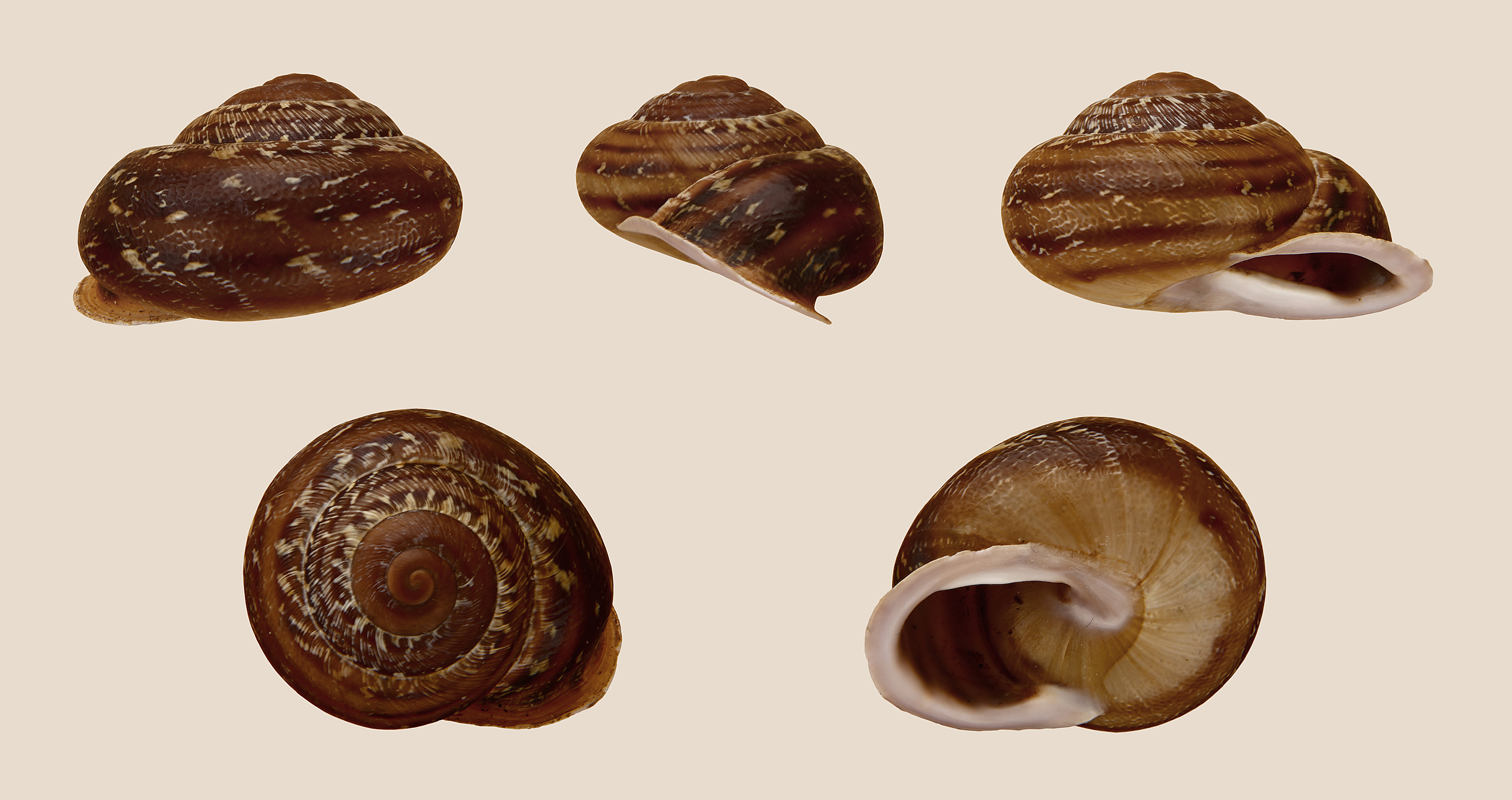 Diameter 2.3 cm; Originating from Los Berrazales, south-east of Agaete, Gran Canaria, Spain, 28°4′12.82″N 15°39′40.06″W / 28.0702278°N 15.6611278°W; Shell of own collection, therefore not geocoded.